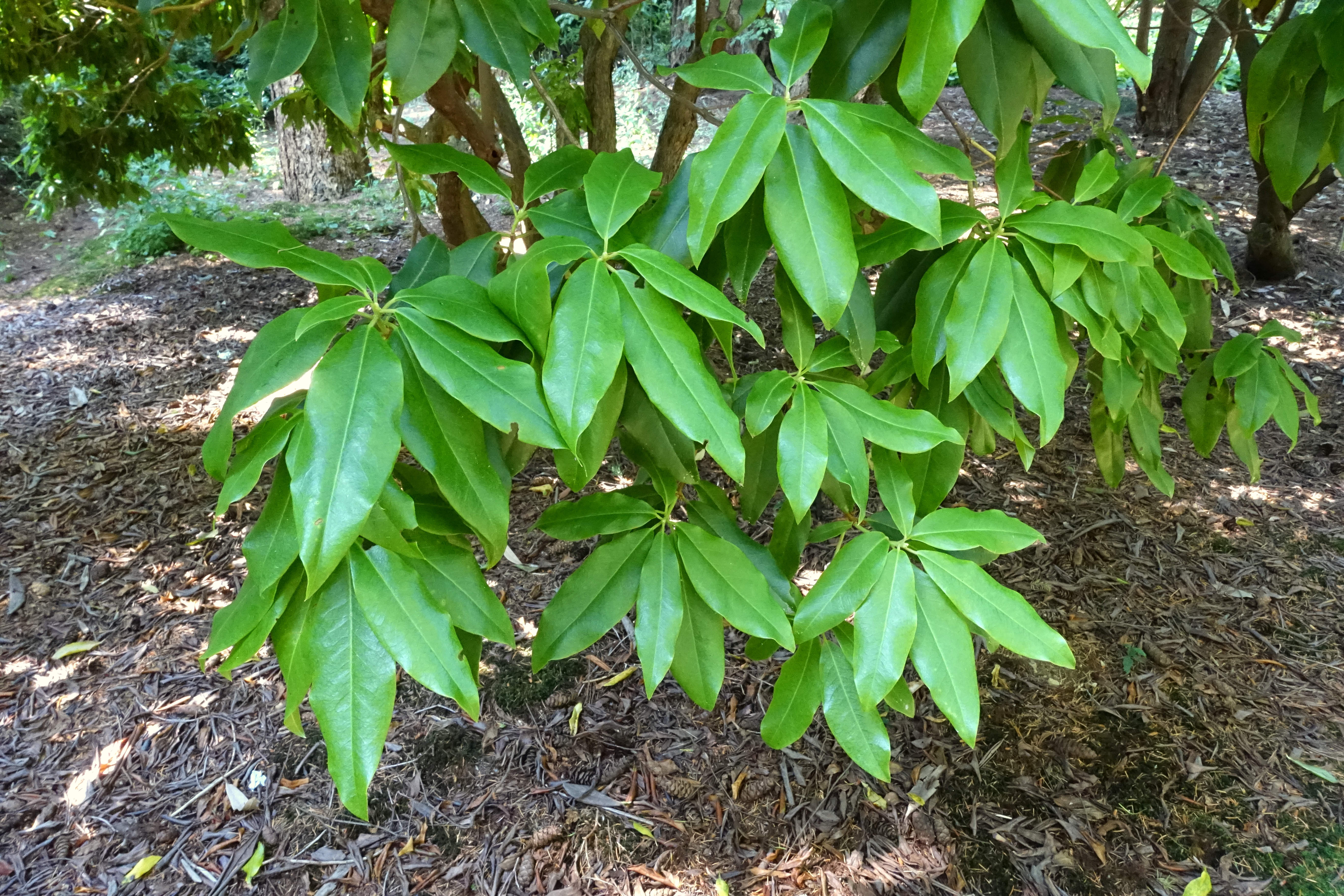 Botanical specimen in the VanDusen Botanical Garden - Vancouver, BC, Canada.